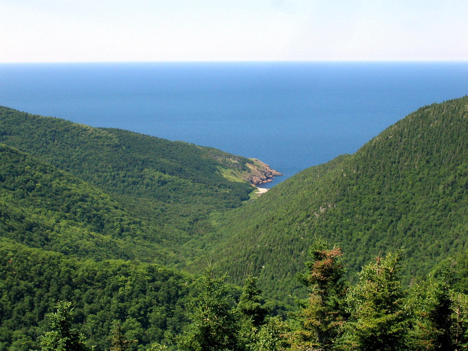 Cape Breton Island, Nova Scotia